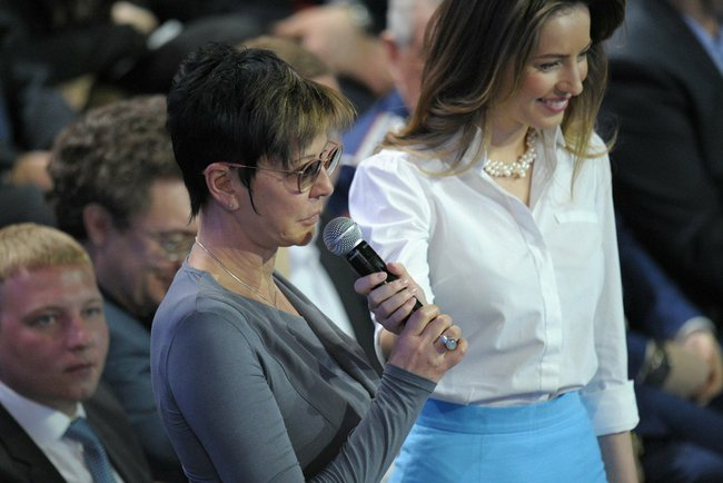 Direct Line with Vladimir Putin (2014-04-17)